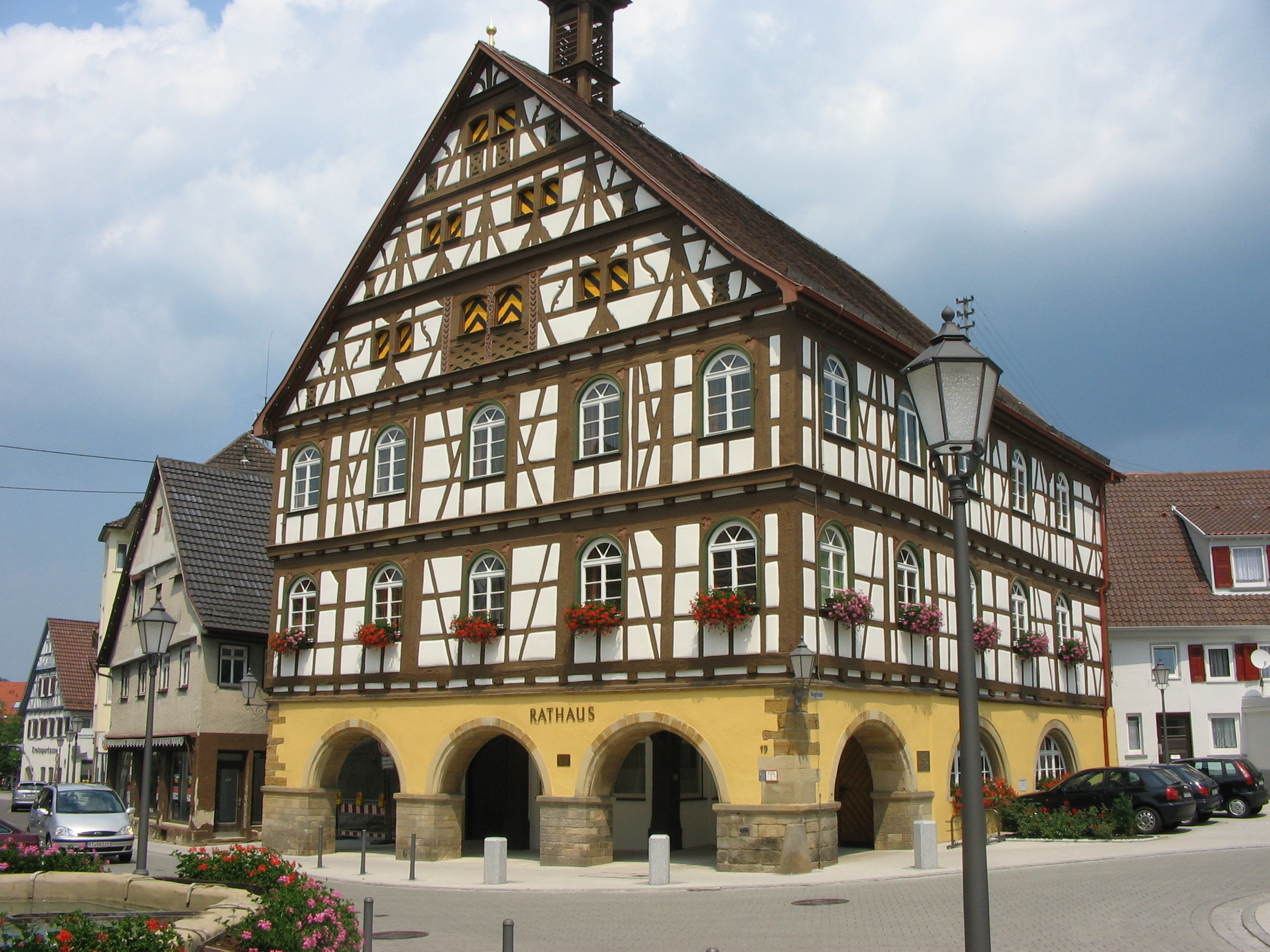 Town Hall of Neuffen, Germany